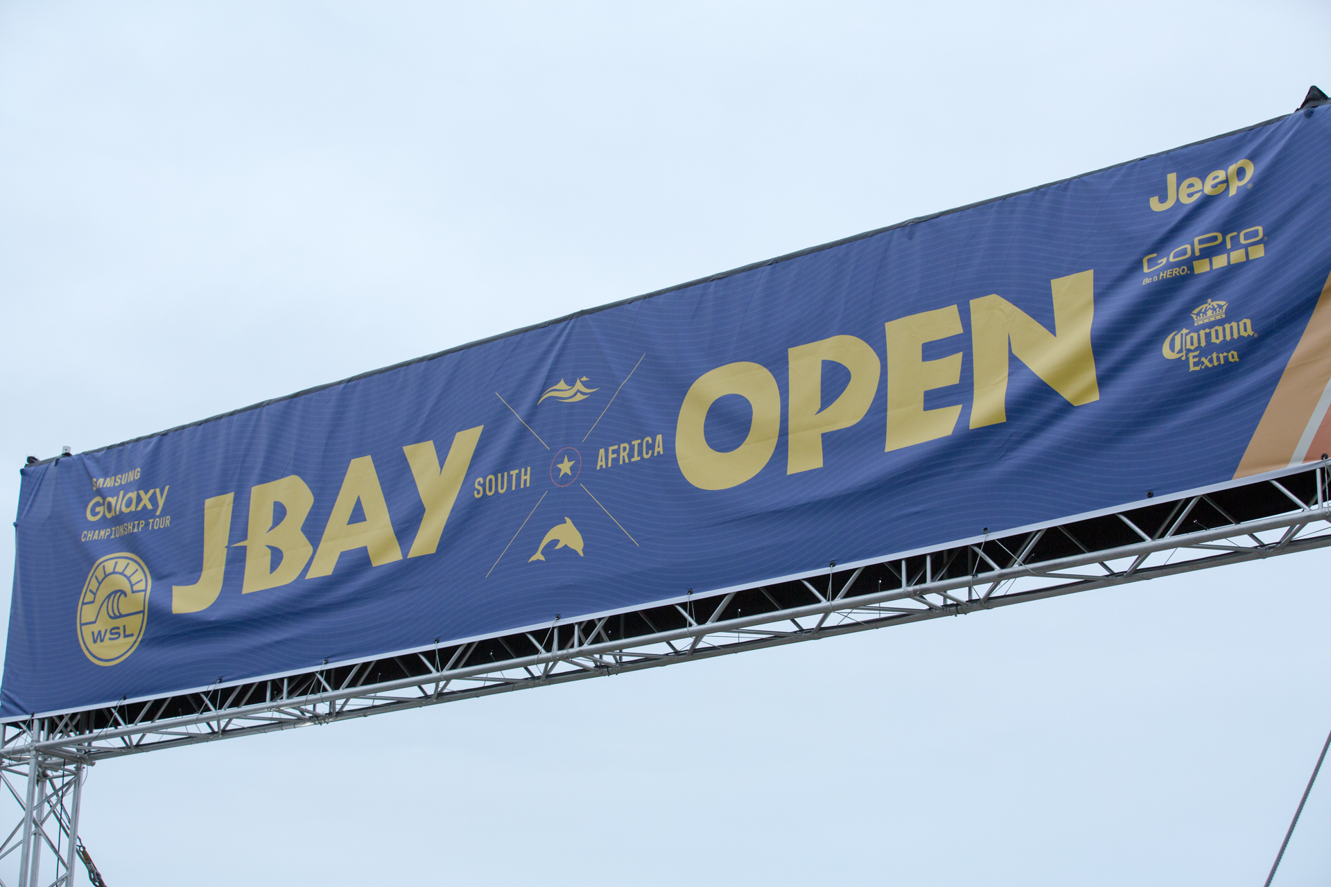 JBay Open 2015 held in Jeffreys Bay in July 2015